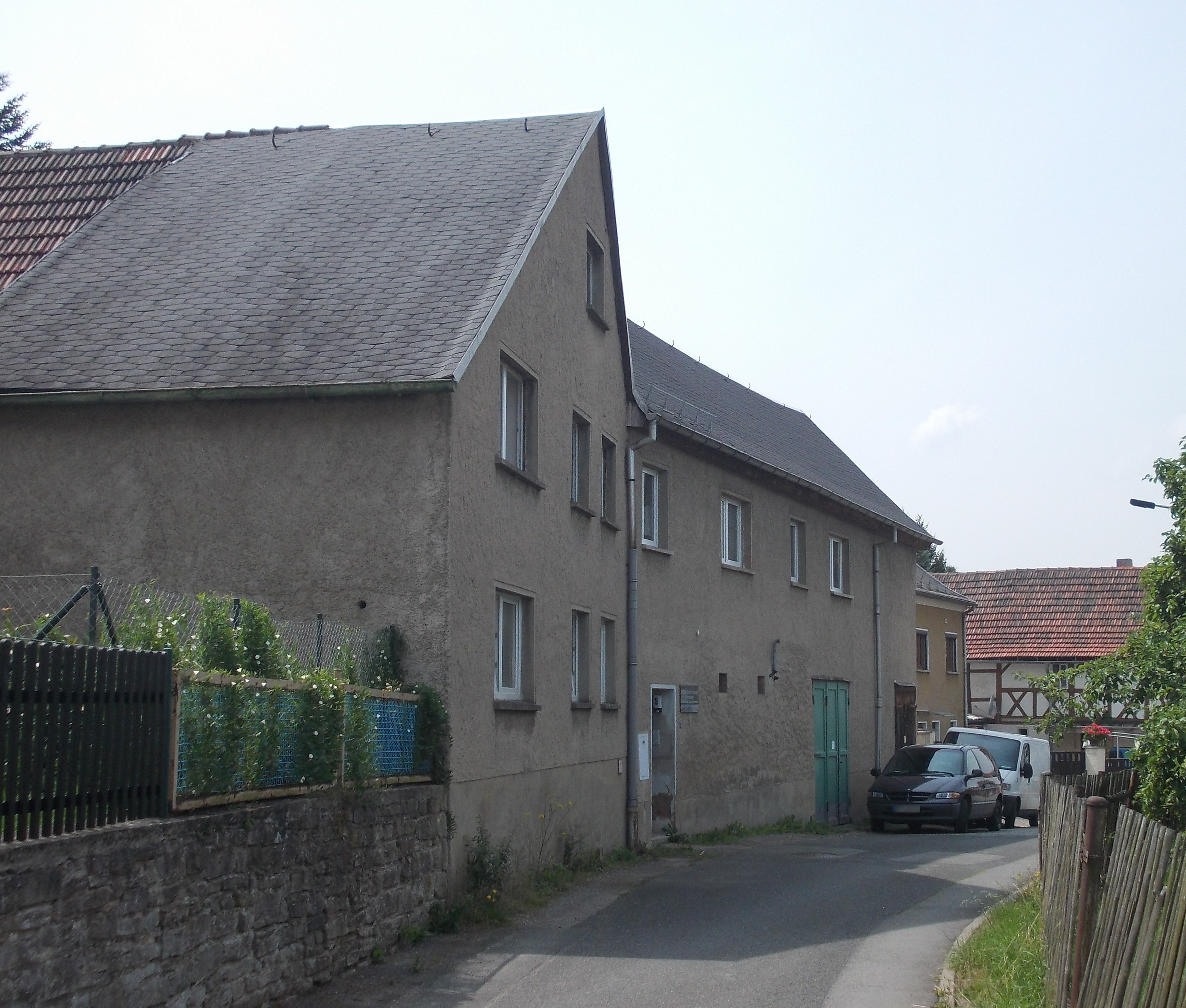 No. 5, Berggasse in Bad Köstritz (Greiz district, Thuringia), the house where the composer Georg Anton Benda spent the last years of his life